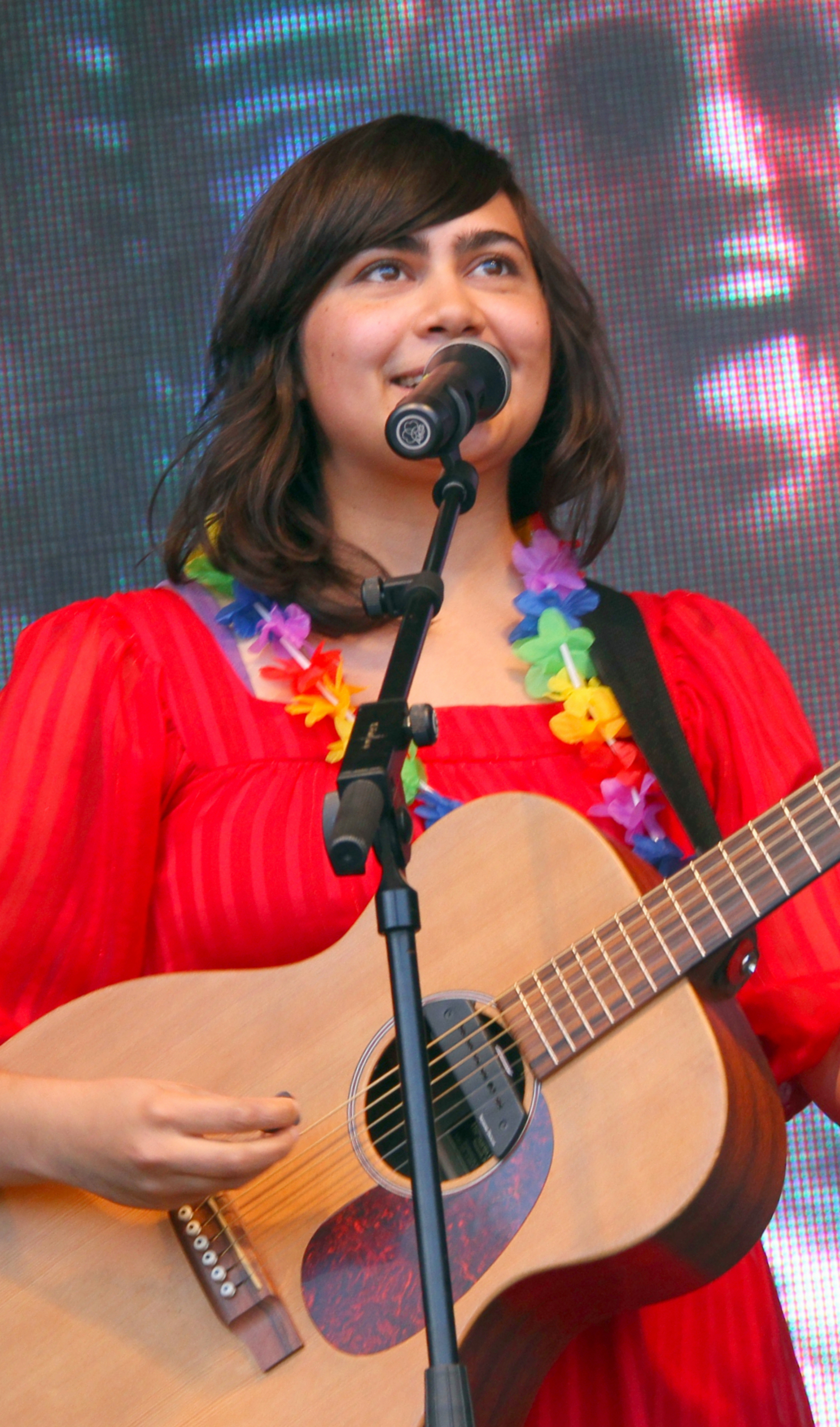 Lovísa Elísabet Sigrúnardóttir (born September 10, 1982 in London, England), better known by her stage name, Lay Low, is an Icelandic artist and singer.